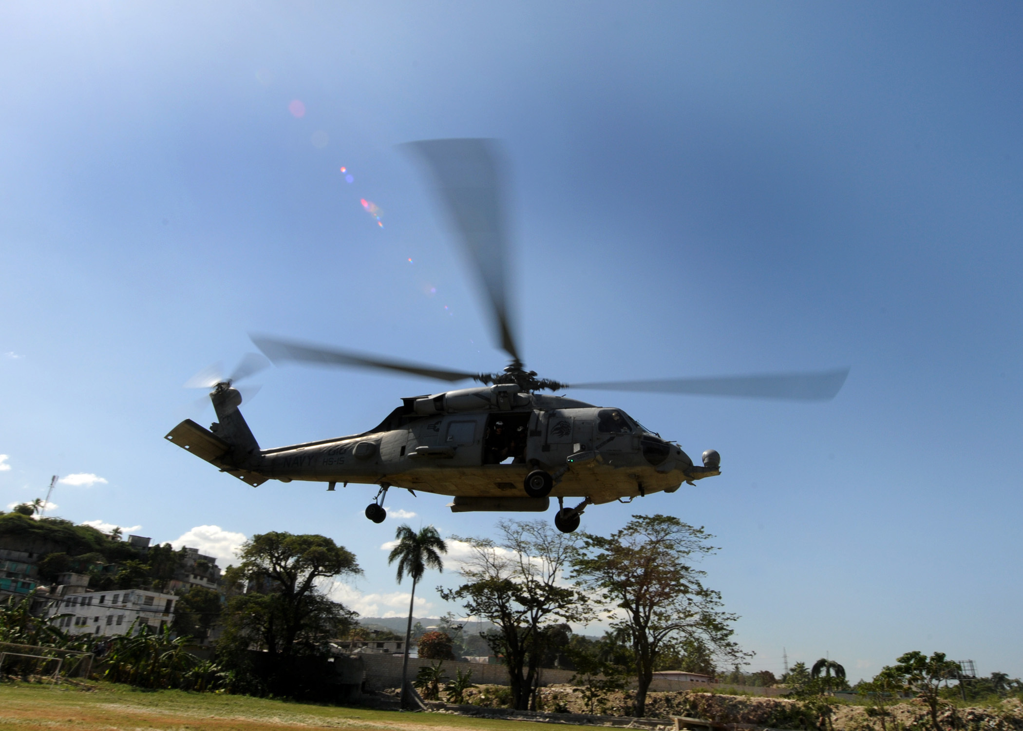 An HH-60H Sea Hawk helicopter, assigned to the Red Lions of Helicopter Anti-Submarine Squadron 15, takes off from the landing zone at the Killick Haitian Coast Guard Base to evacuate injured Haitian citizens to a treatment facility. Several U.S. and international military and non-governmental agencies are conducting humanitarian and disaster relief operations as part of Operation Unified Relief after a 7.0 magnitude earthquake caused severe damage in and around Port-au-Prince, Haiti, Jan. 12.